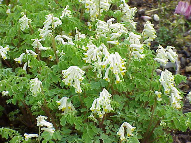 Species: Pseudofumaria alba Family: Papaveraceae Image No. 2